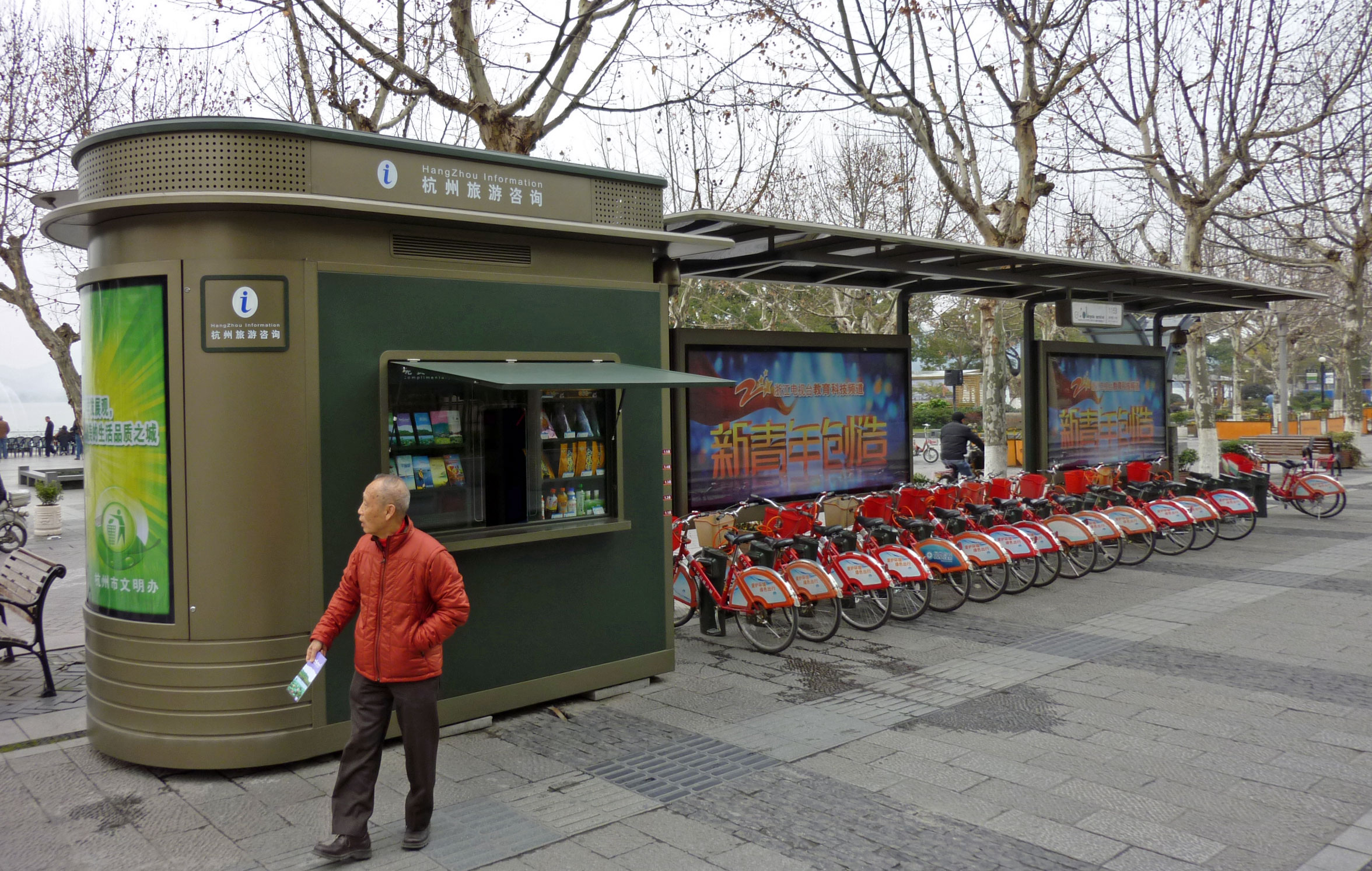 Bike sharing rack adjacent to West Lake, Hangzhou, China